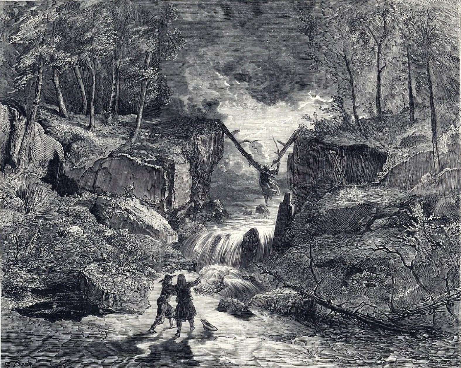 Set of Giacomo Meyerbeer's Le Pardon de Ploërmel (Dinorah) Act II Scene 2